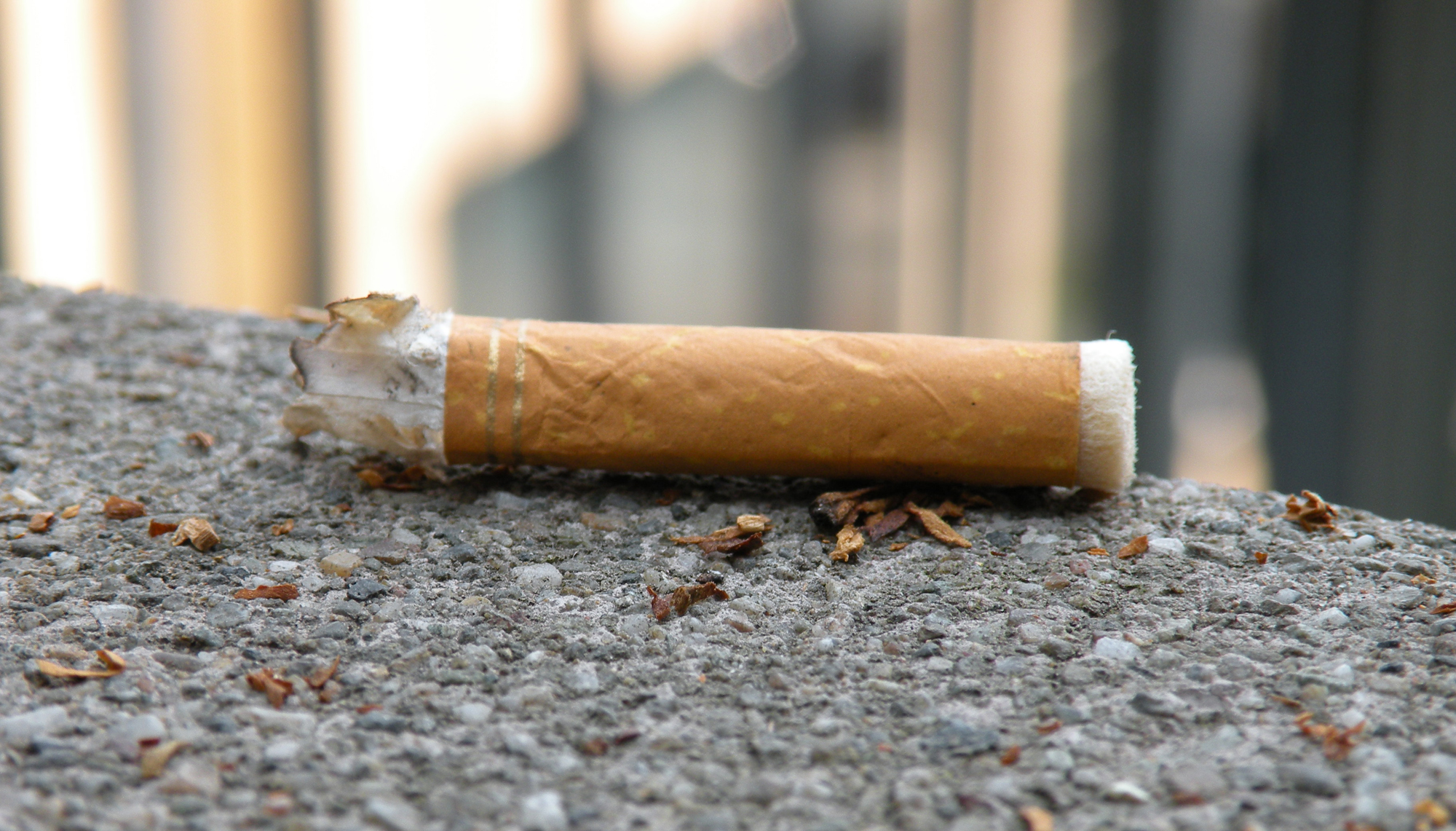 An unfinished cigarette on the asphalt floor.